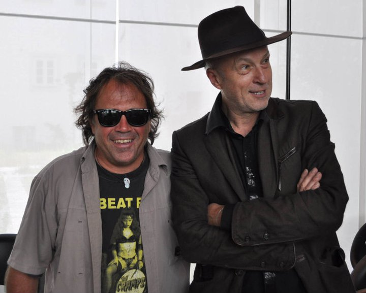 Pero Lovšin and Vlado Kreslin